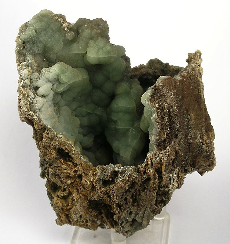 Gibbsite Locality: Xianghualing Mine (Hsianghualing Mine), Xianghualing Sn-polymetallic ore field, Linwu County, Chenzhou Prefecture, Hunan Province, China (Locality at ) Size: cabinet, 10.8 x 9.2 x 7.8 cm Gibbsite Translucent, gray-green botryoidal aggregates of greenish-gray gibbsite, to 1.0 cm across, are aesthetically emplaced deep in a vug. I really like the sculptural quality of this specimen and that it shows a whole, entire pocket as found (aside from the quality of the crystallization itself). The shape and look of the botryoidal aggregates are reminiscent of Arkansas wavellite. This is a very rich, fine specimen with unusually large botryoidal crystallization - rarely seen in the find.